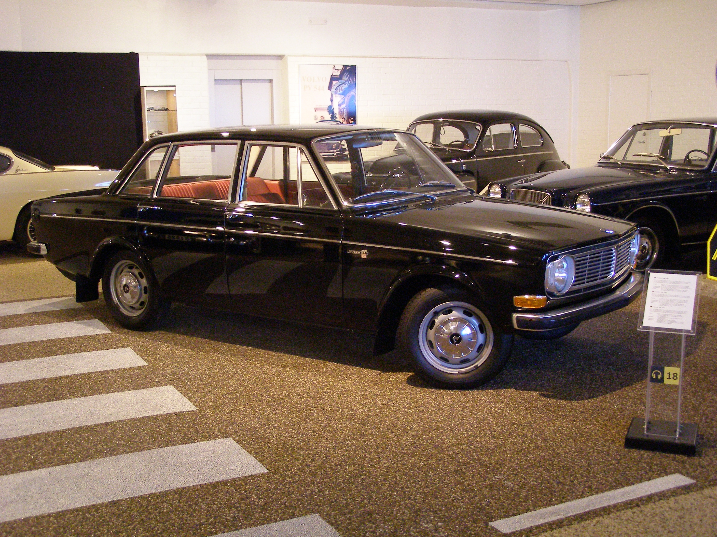 Gothenburg - Volvo Museum - Volvo 144